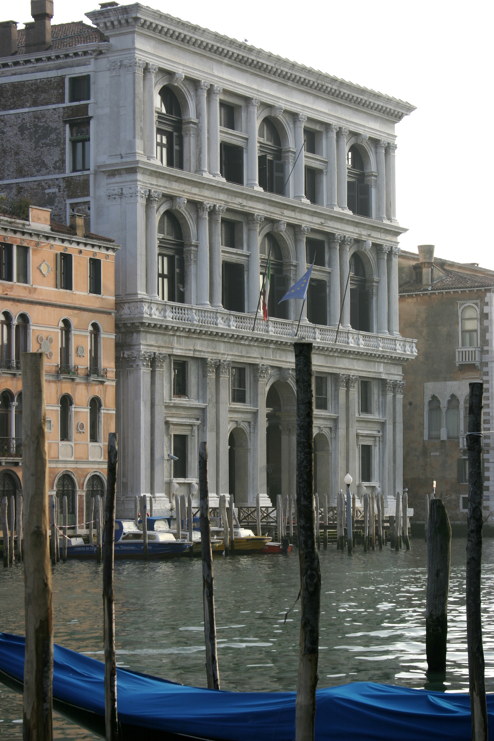 Palazzo Grimani di San Luca in Venice, along the Canal Grande.